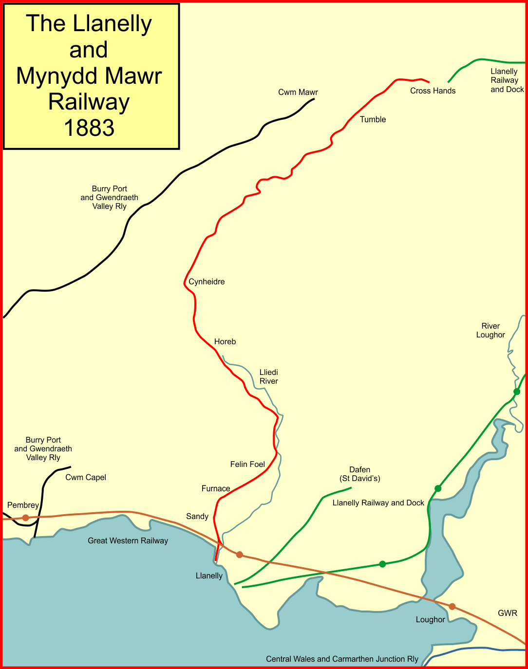 System map of the Llanelly and Mynydd Mawr Railway in 1883